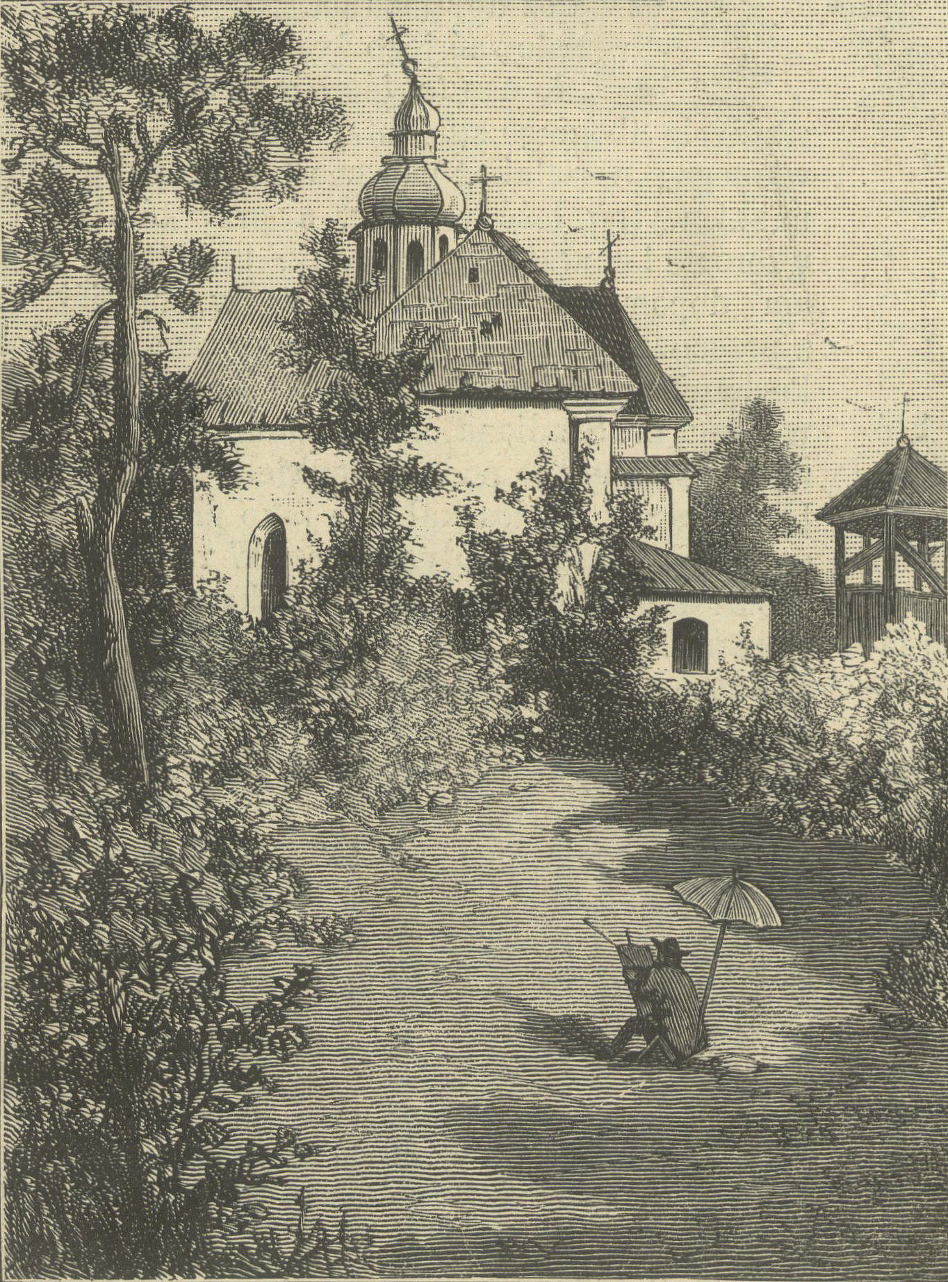 Catholic Church near Niaśviž